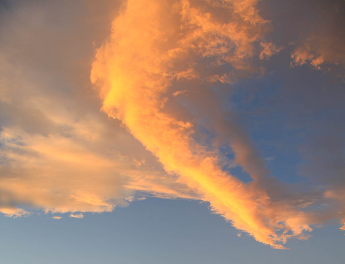 Fading northwest arch over Canterbury New Zealand during a sunset. It is due to a foehn wind.